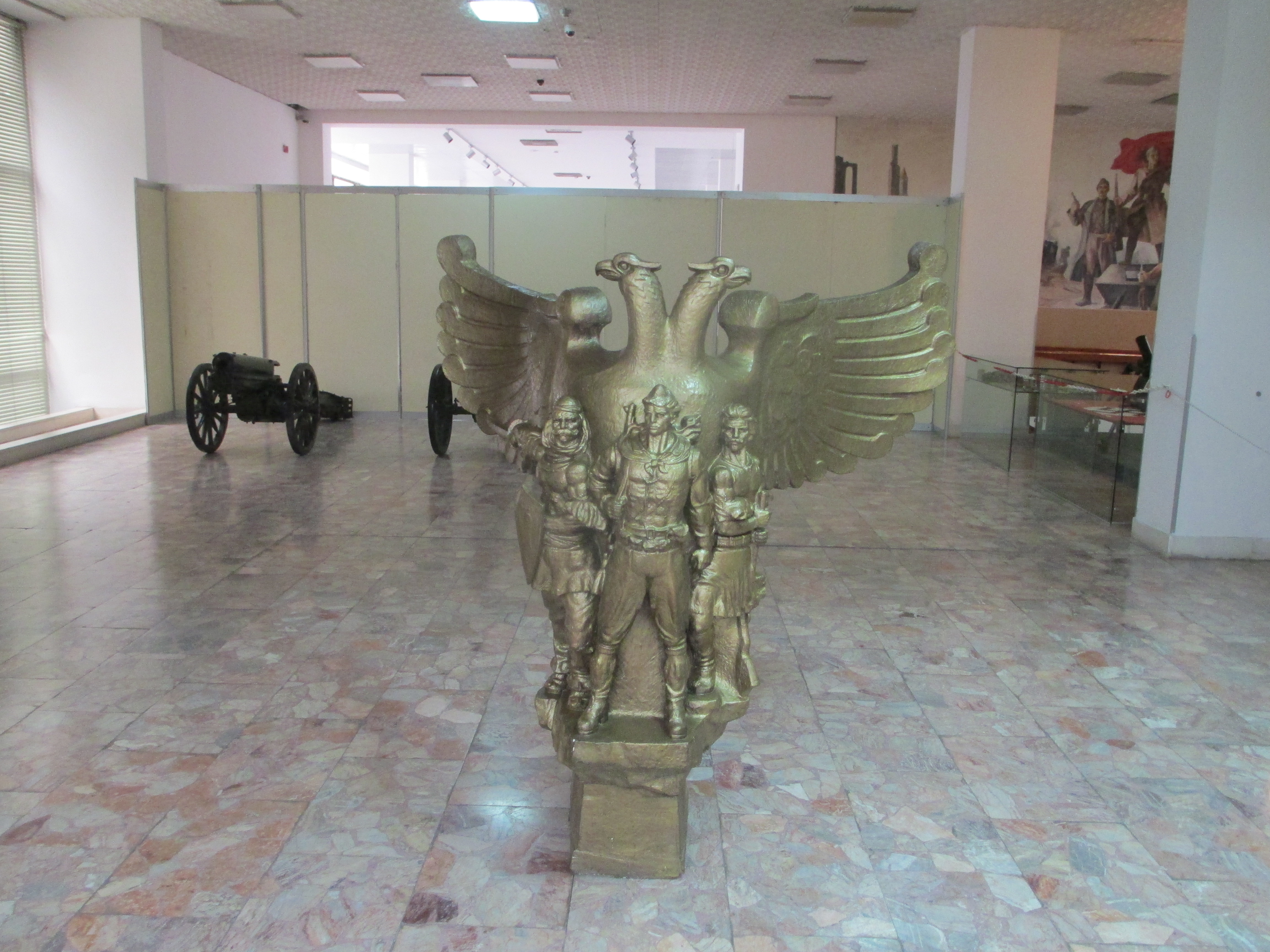 המוזיאון ההיסטורי הלאומי בטירנה, אלבניה